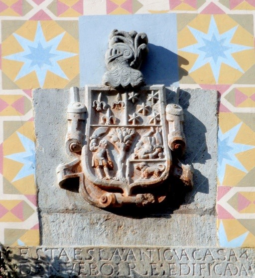 Escudo de Armas de Valle